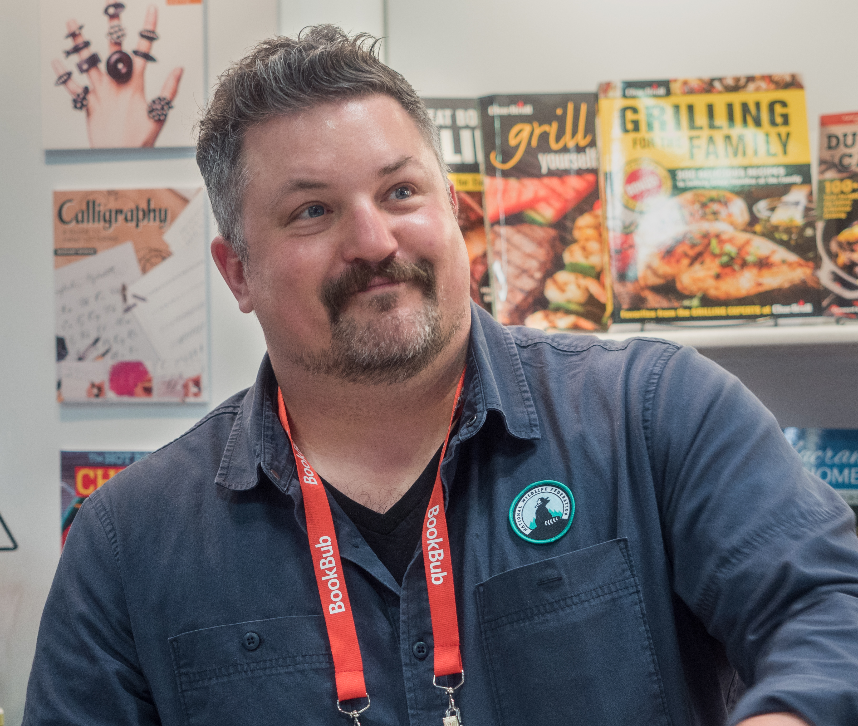 David Mizejewski at BookExpo at the Javits Center in New York City, May 2019.